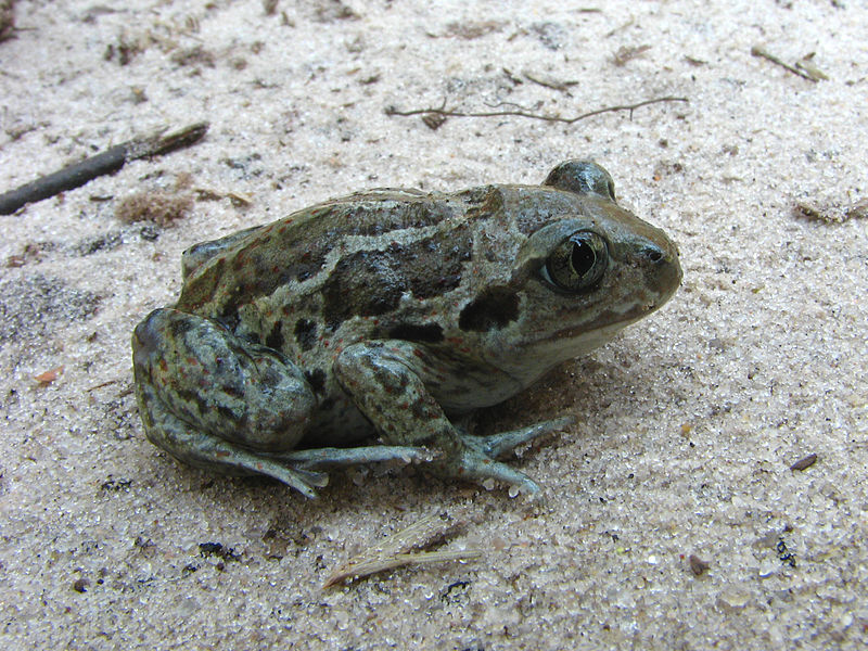 Common Spadefoot (Pelobates fuscus), Cherkasy region, Ukraine